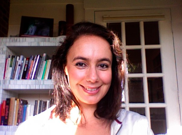 Bernadette Wegenstein, author of books on media theory, and a research professor and director of the Center for Advanced Media Studies at Johns Hopkins University.